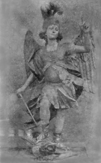 Statue of St. Michael the Archangel, image from the early 1800s, Church of Padula